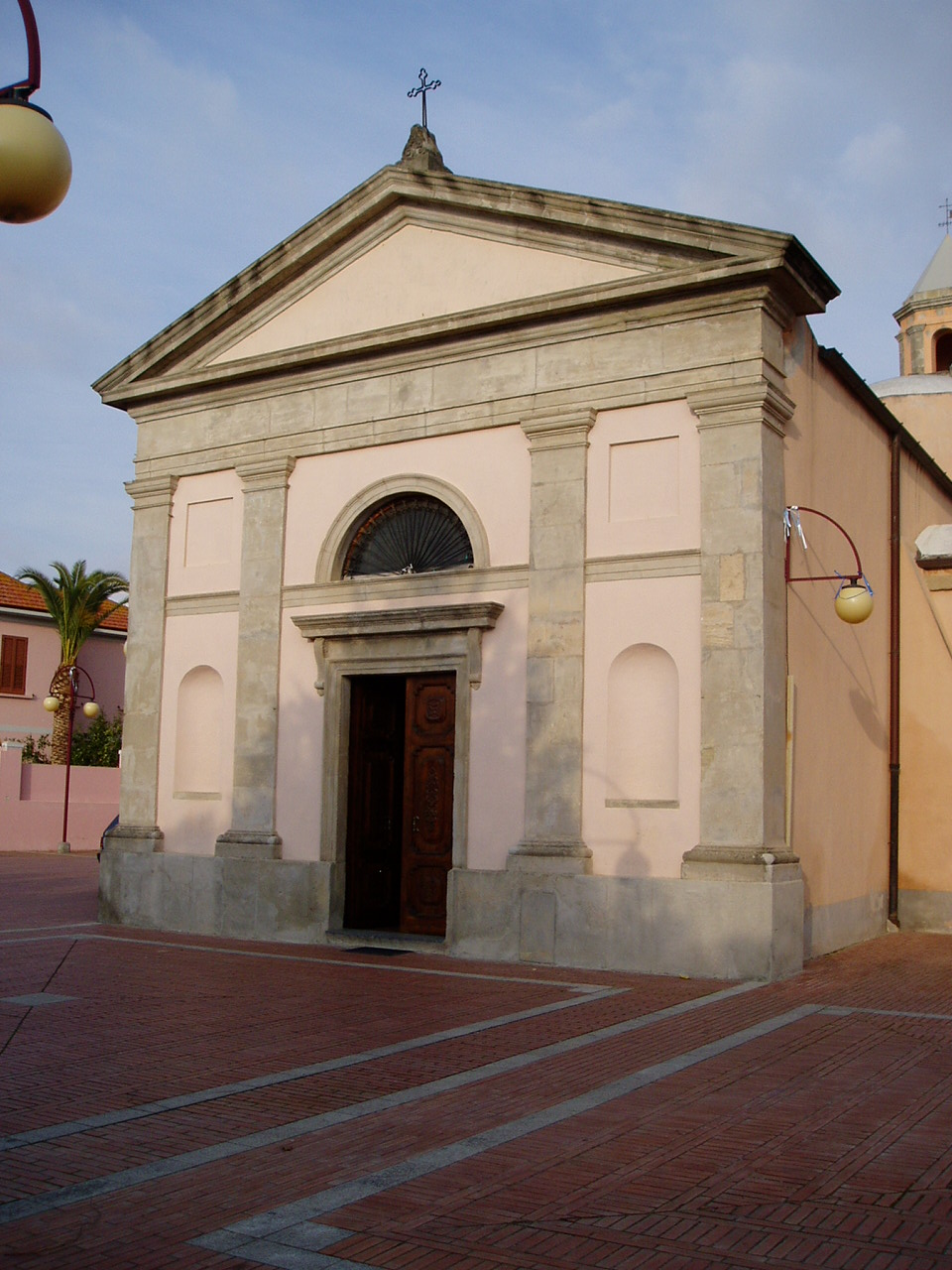 Church of San Salvatore, Serdiana (CA)